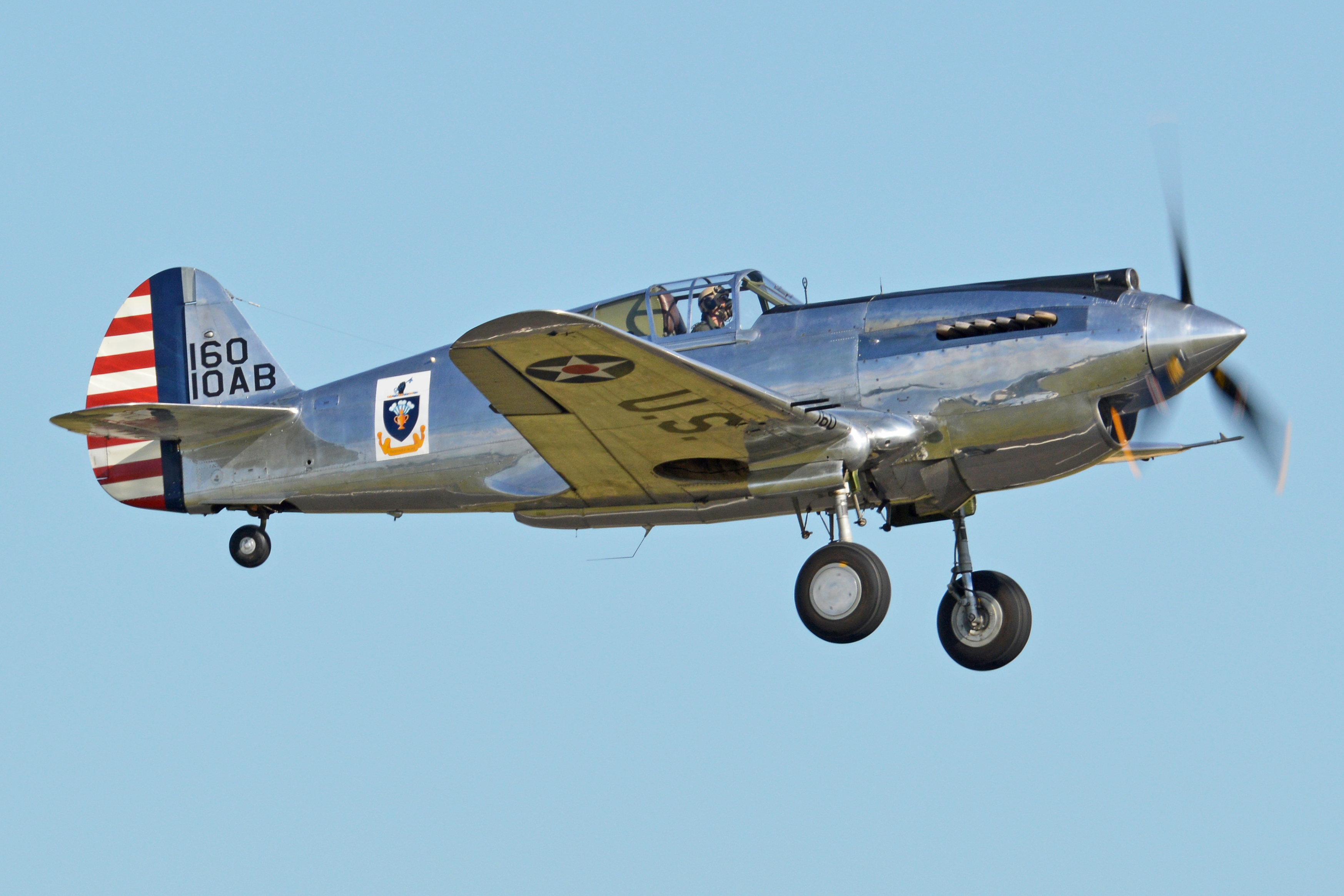 c/n 16161. Full US Military serial '41-13357'. Owned and operated by The Fighter Collection, she is seen taking off at the 2017 Flying Legends Airshow. Duxford Airfield, Cambridgeshire, UK. 8th July 2017.